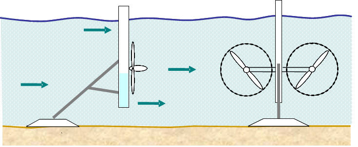 artwork illustrating typical semi-submersible tidal turbine